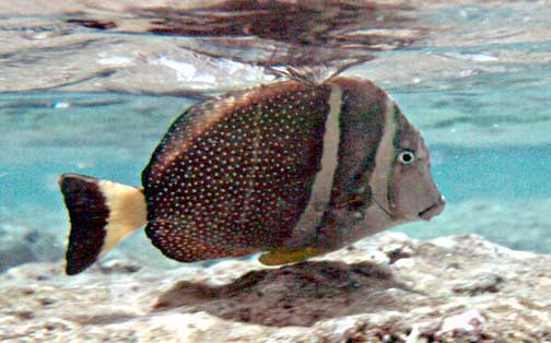 Acanthurus guttatus